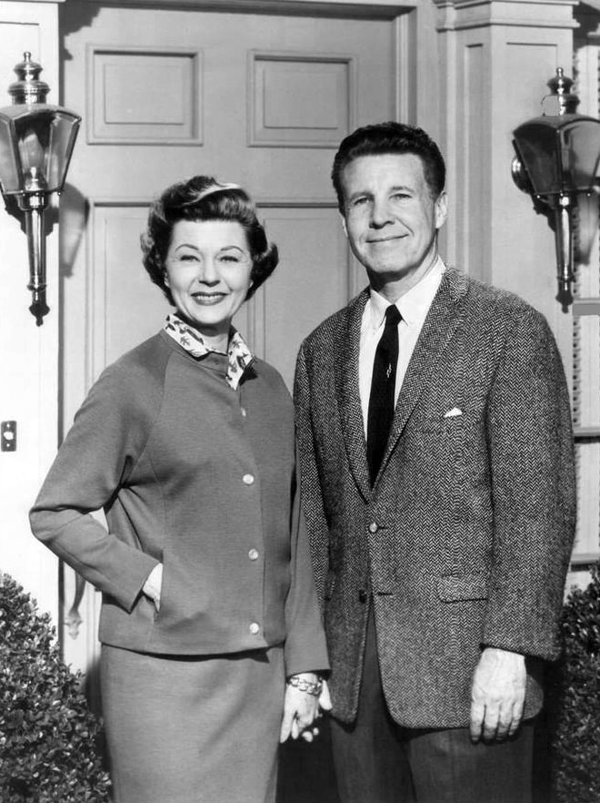 Publicity photo of Ozzie and Harriet Nelson from the television program The Adventures of Ozzie and Harriet.